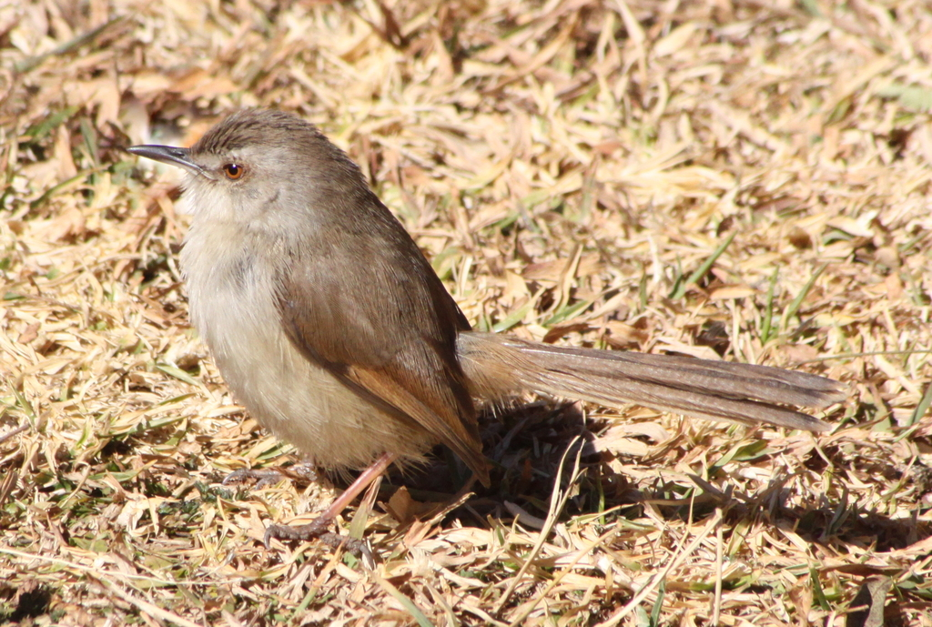 A Tawny-flanked Prinia at Rietvlei Nature Reserve, South Africa.